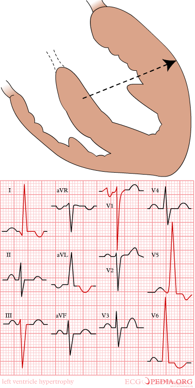 Left ventricular hypertrophy